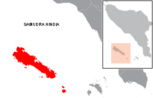 Location of Simeulue island in Aceh province, Sumatra, Indonesia